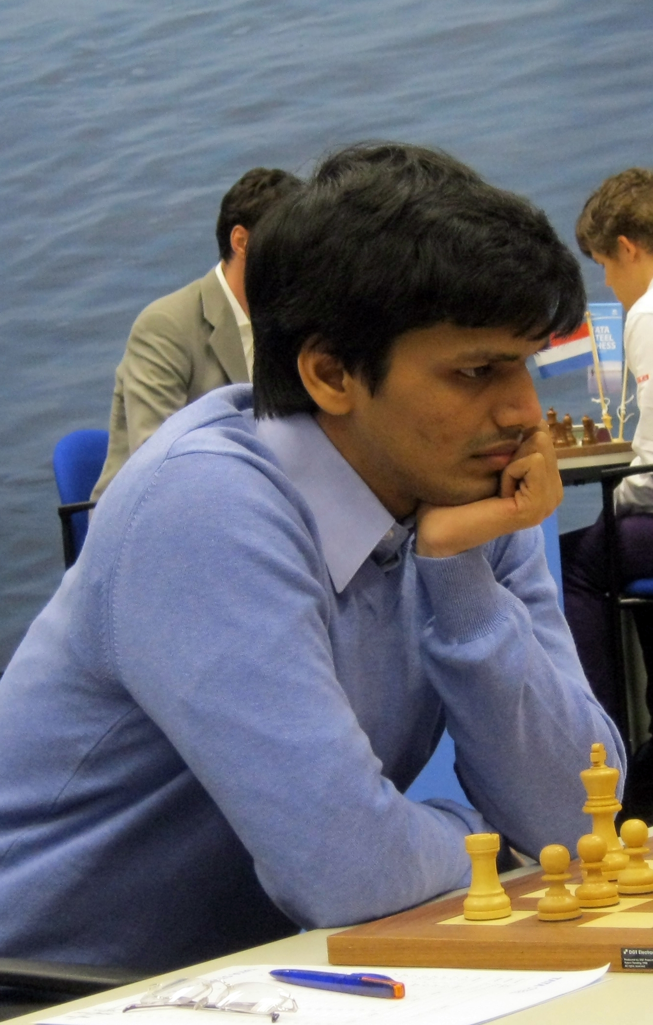 Pentala Harikrishna, chess grandmaster from India